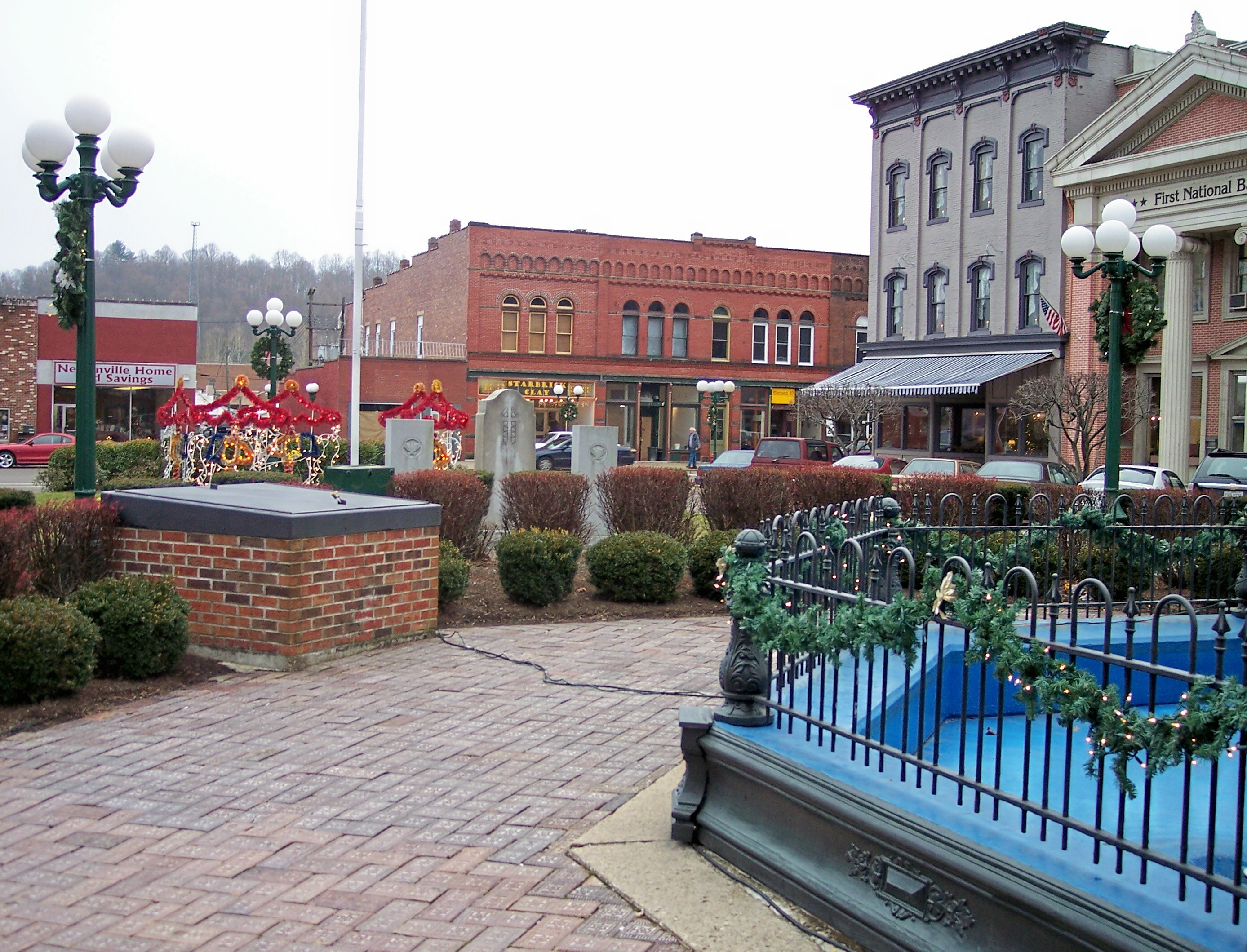 Public square in downtown Nelsonville, Ohio